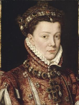 Portrait of Elisabeth of Valois (1545-1568)